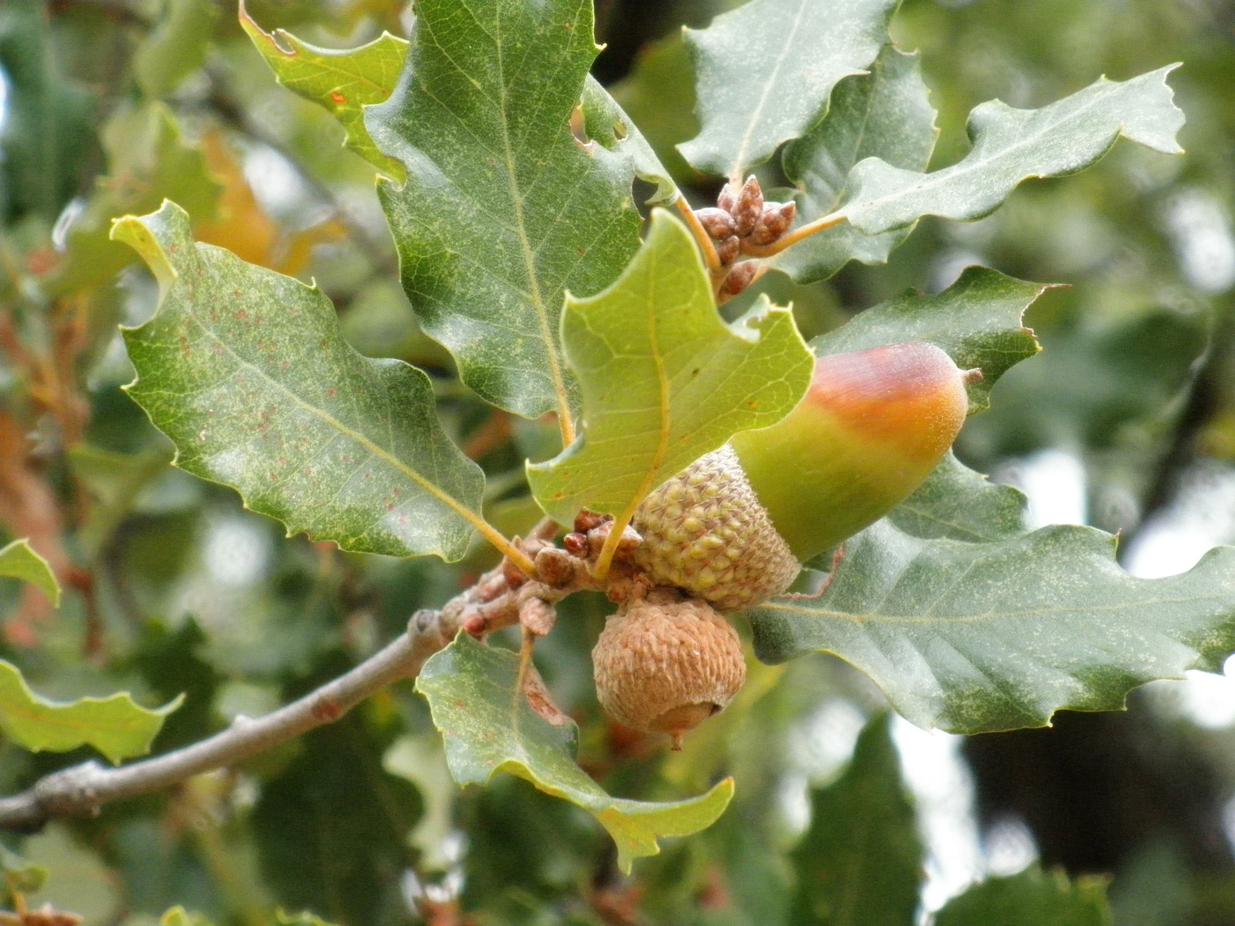 Quercus canariensis x Quercus faginea acorn, Sierra Madrona, Spain